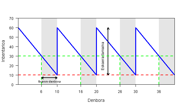 Inventory with deterministic demand.